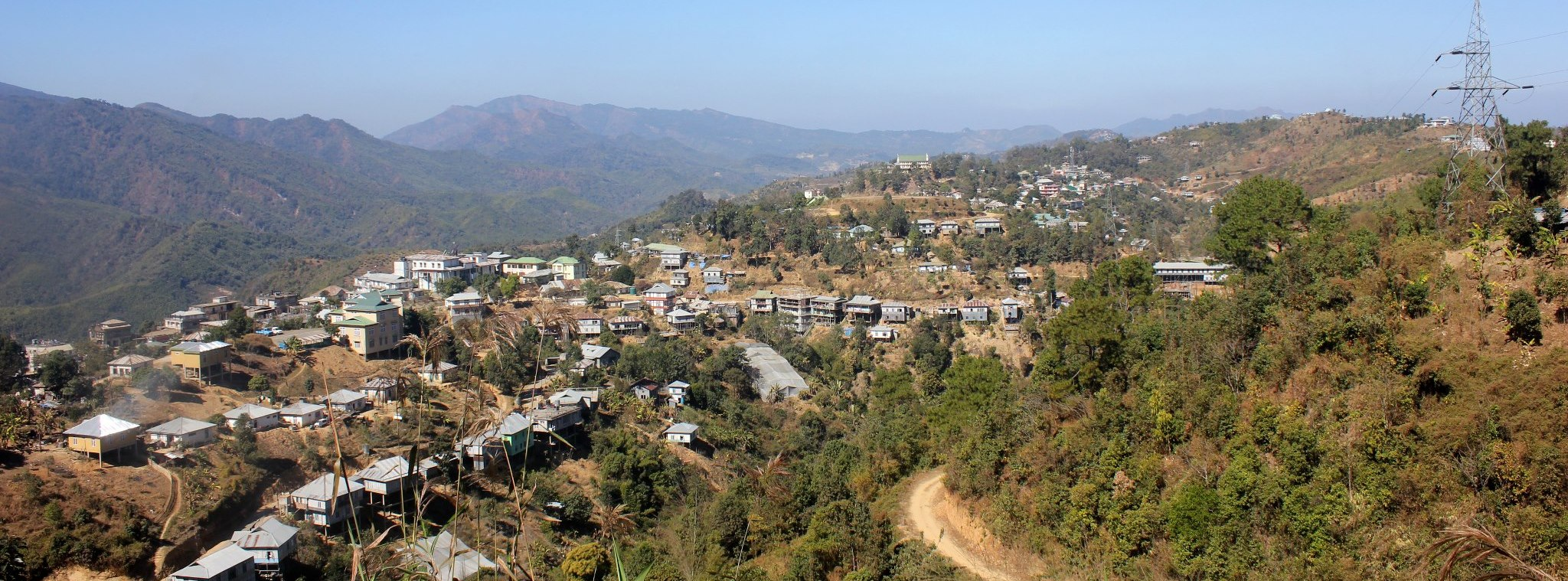 Skyline of New Serchhip taken from Serchhip